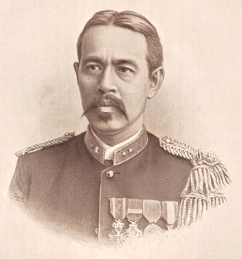 Pieter van Lawick van Pabst